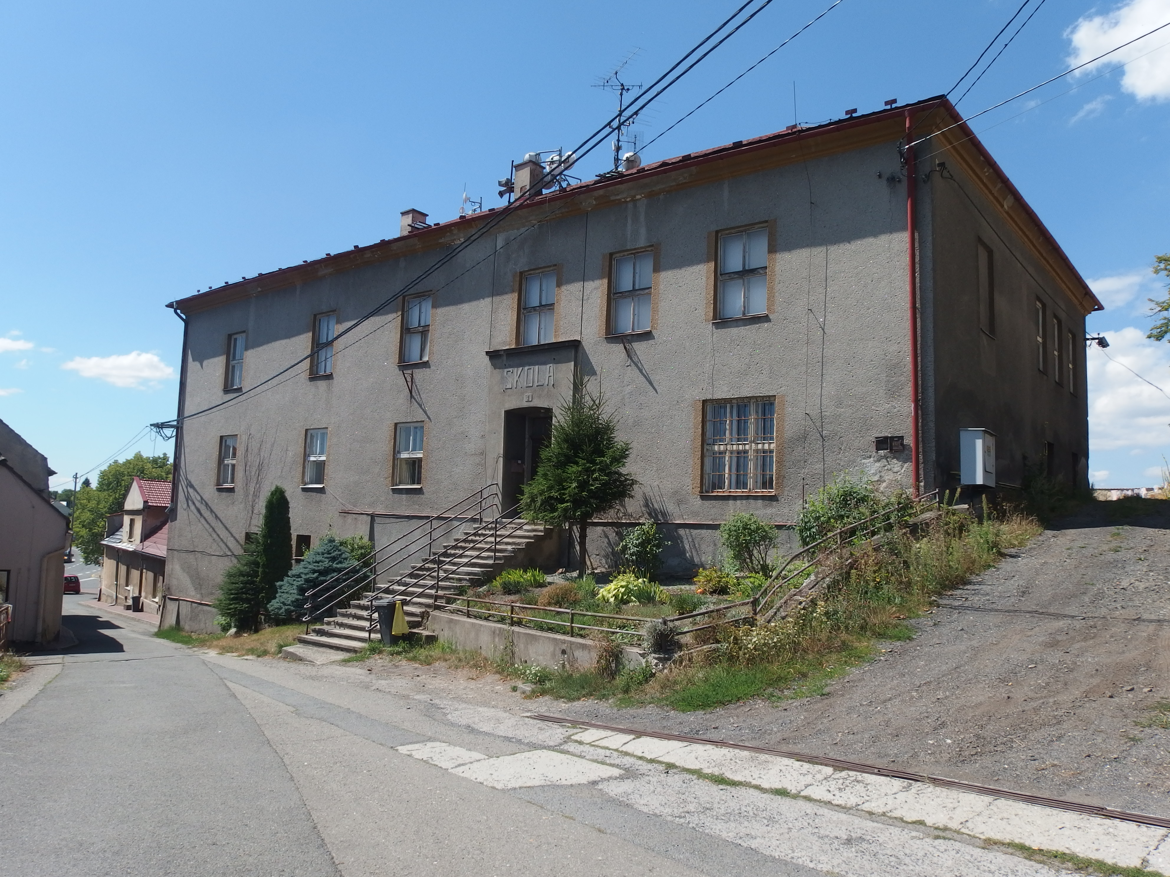 Starý Jičín, Nový Jičín District, Czech Republic.